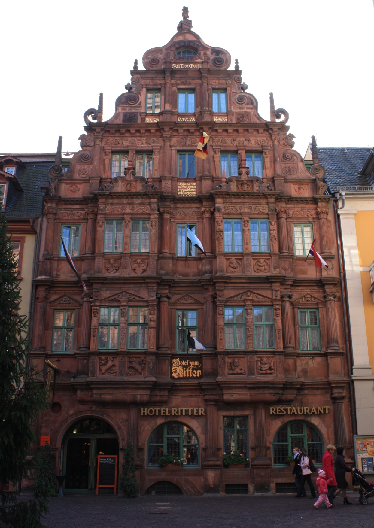 Haus zum Ritter, Heidelberg, Germany